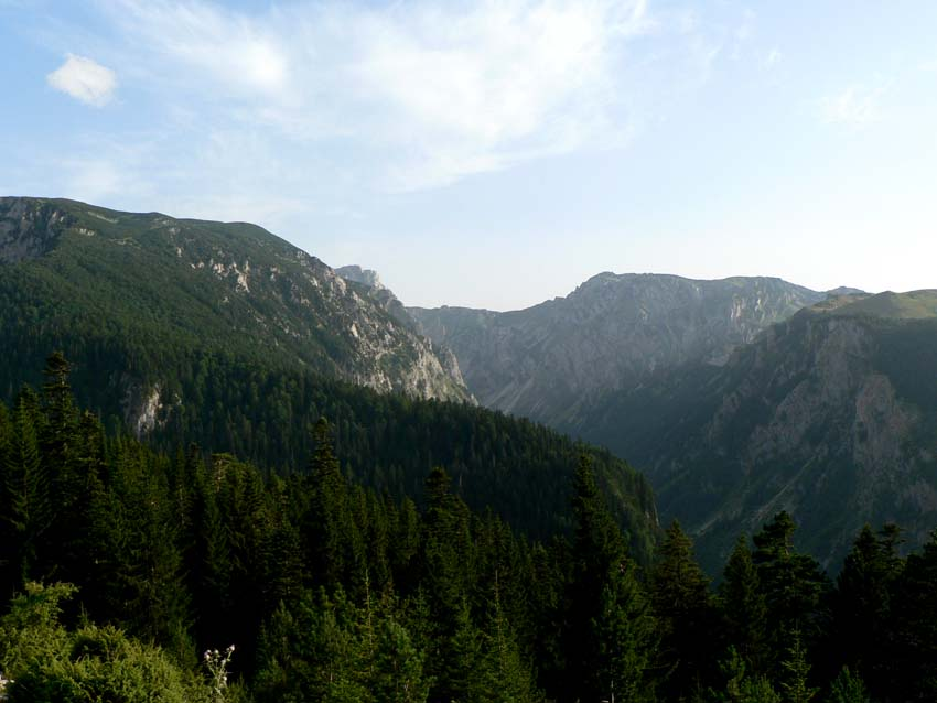 View of Susica canyon. Depth 800 meters.